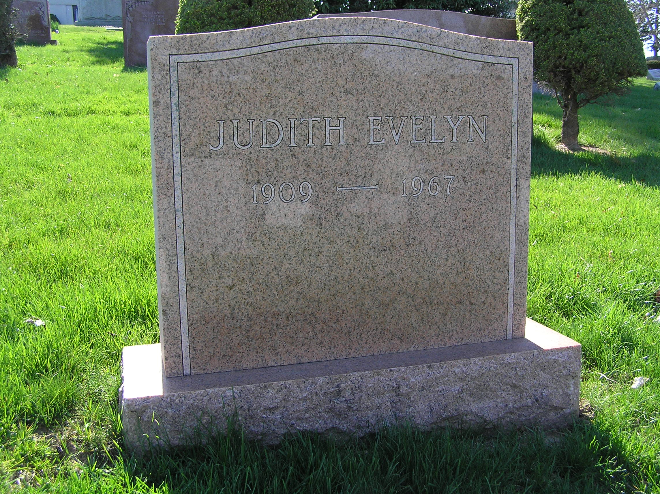 The headstone of Judith Evelyn in Kensico Cemetery